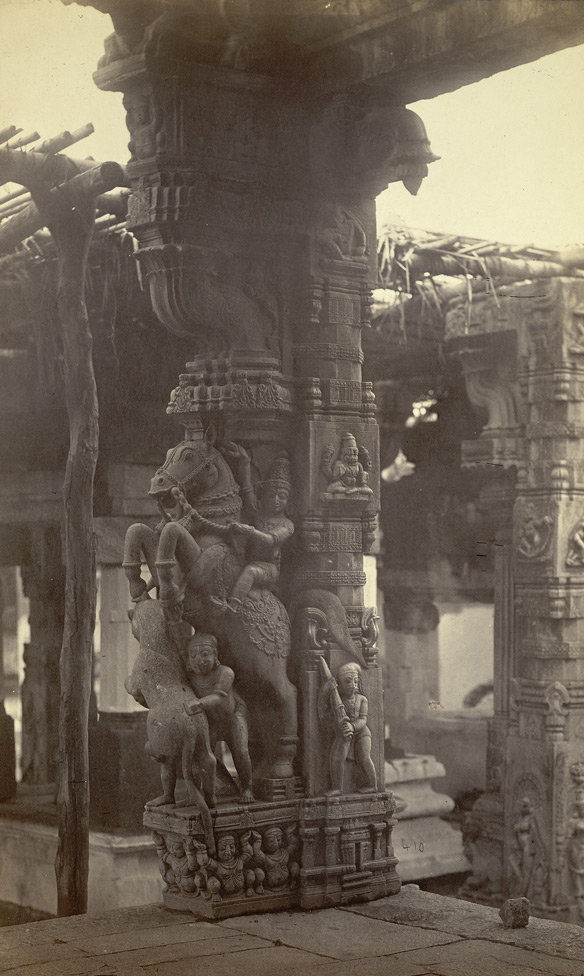 Print from an album of 44 albumen prints, showing two carved pillars at the entrance of the Shiva temple at Perur near Coimbatore, taken by Edmund David Lyon around 1868. In his Notes Lyon wrote that this photograph 'shows a view of the two Pillars immediately on the top of the steps leading to the temple... A man loading a musket will be observed, as the principal figure on the right-hand pillar, and his accoutrements, and the form of his firelock, and his dress, all prove him to be just such a Sepoy as fought against us, in our wars with the French in this country. As he is an integral part of the sculpture, it is quite clear that the temple cannot be earlier than the beginning of the last century'.